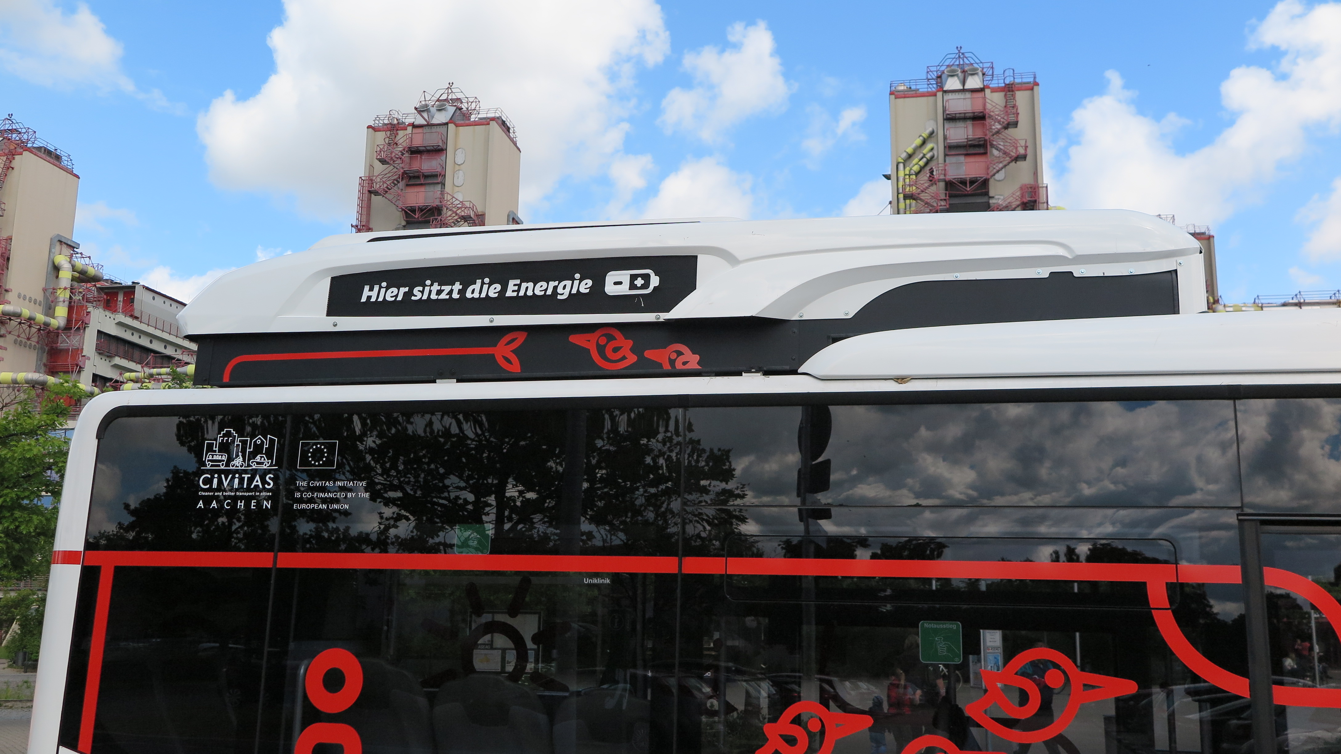 One of the two battery packs of the first electric articulated bus of ASEAG. The Mercedes-Benz Citaro articulated bus was rebuilt as part of the EU project Civitas (Cleaner and better transport in cities) by ASEAG and their partners from a hybrid electric bus to a battery electric bus.